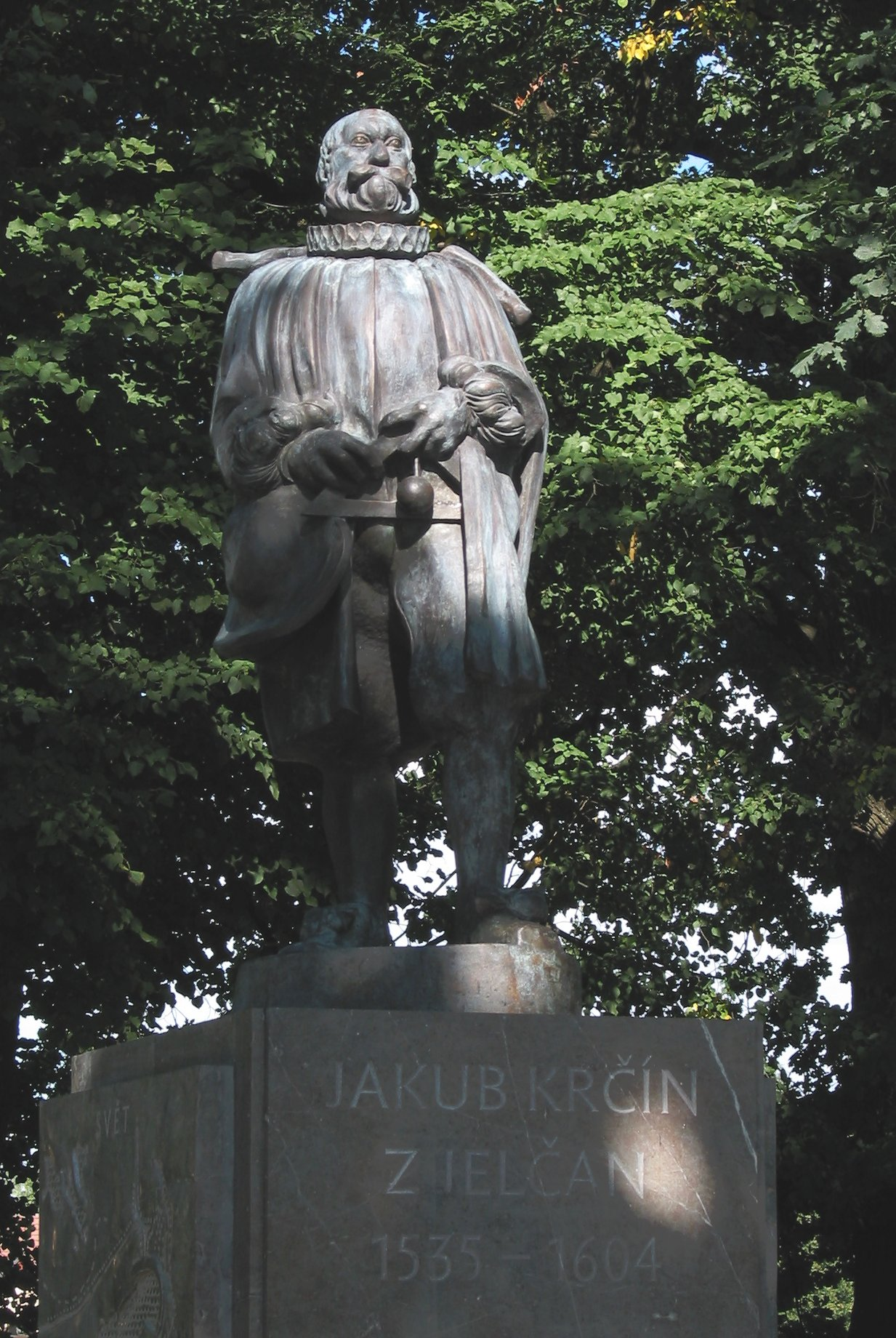 Statue of Jakub Krčín on dam of the Svět Pond near Třeboň, Czech Republic.